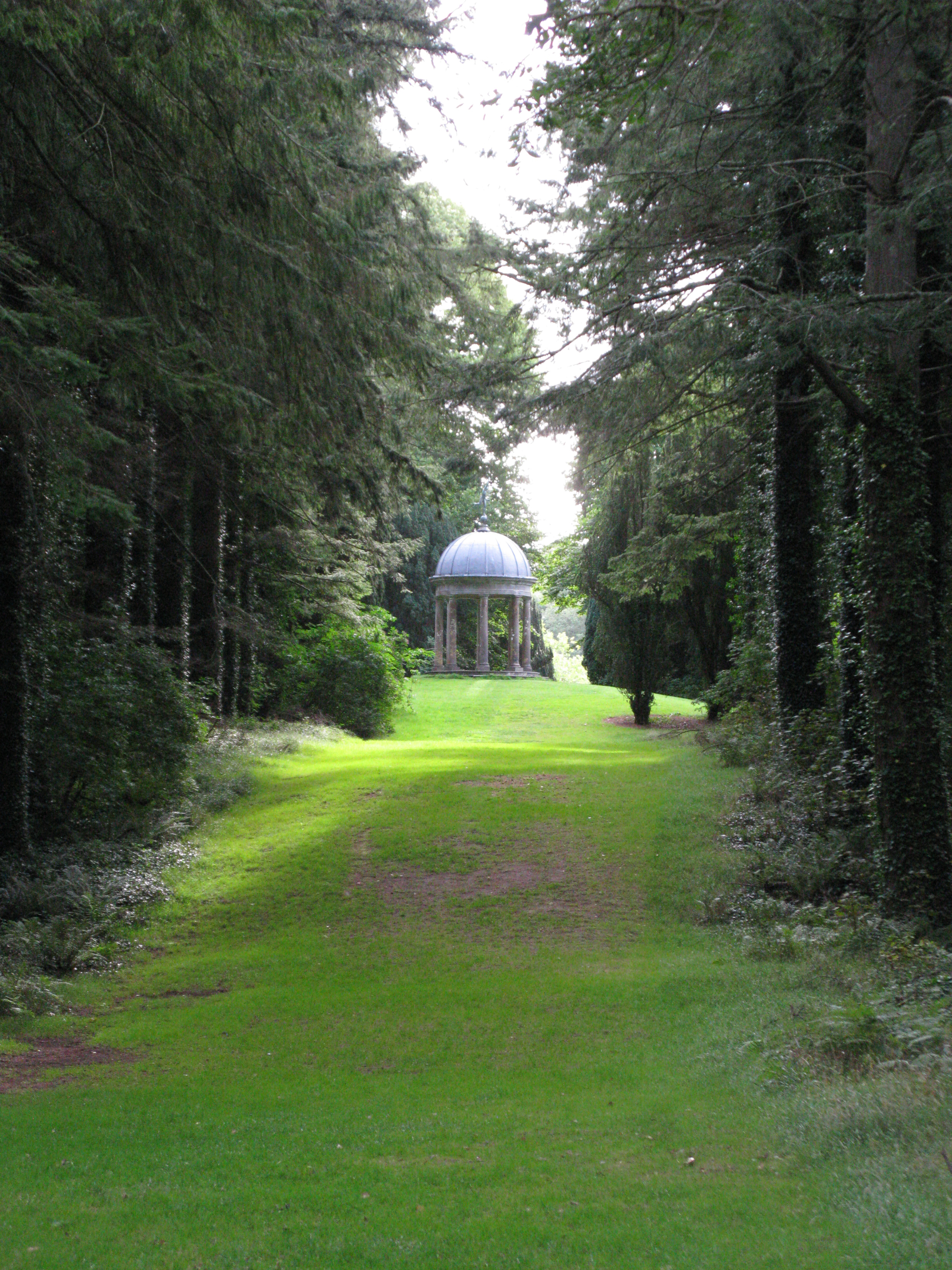 Gazebo on Dromoland Castle's Turret Hill, designed by John Aheron.